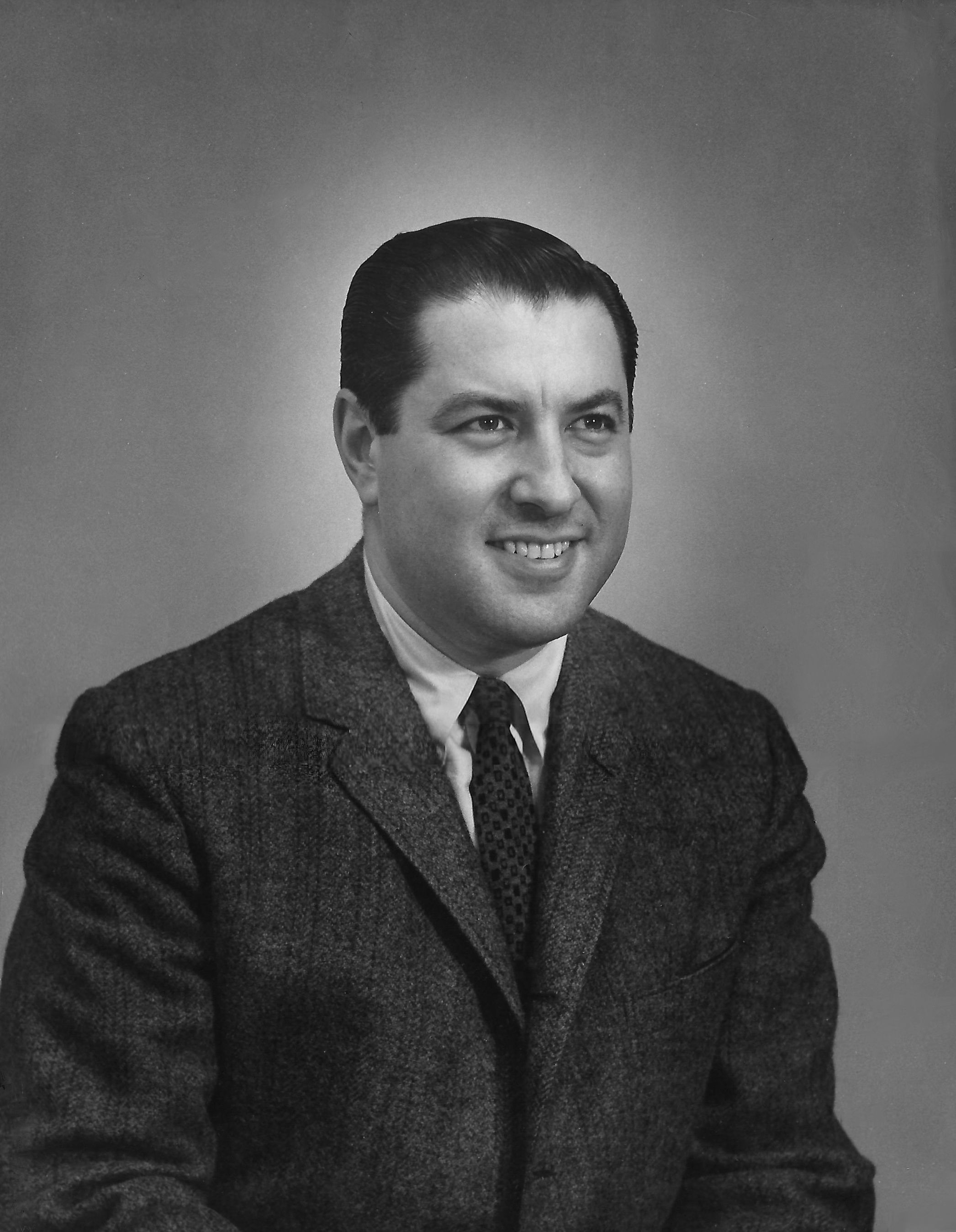 This portrait depicts Bloom at the end of his consumer products career and the beginning of his real estate development career.